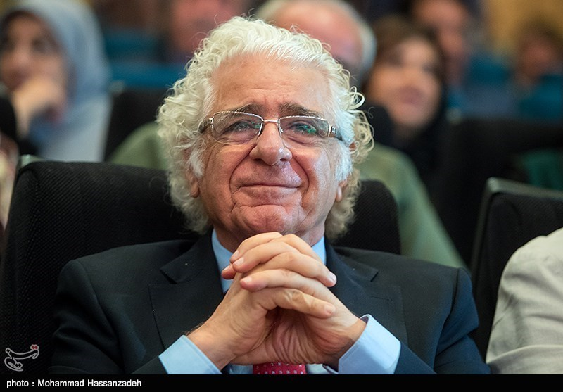 Commemoration of Majid Entezai (2017)